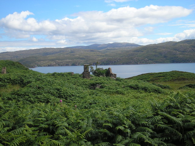 Ruined houses Ruined houses on largest island of the crowlin islands, chimney stack is still standing, about 5 other houses nearby, the house with the chimney is the largest. Bracken hides most houses in summer.